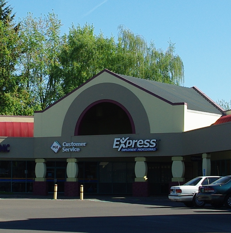 Center portion of Shute Park Plaza in Hillsboro, Oregon.